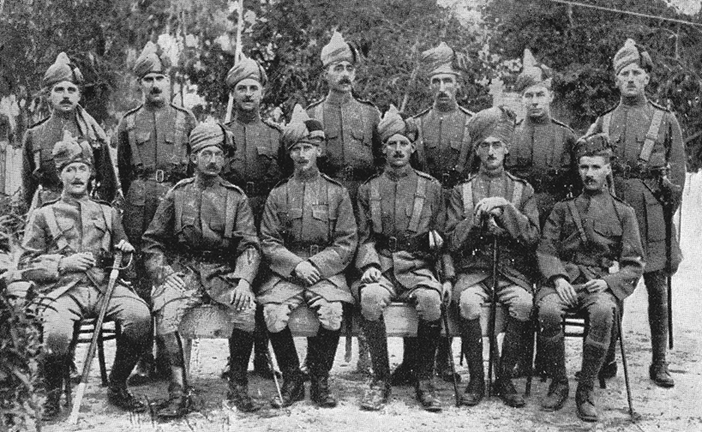 62nd Punjabis (now 1 Punjab, Pakistan Army), Ismailia, Egypt, 1914. Published in Qureshi, Maj MI. (1958). Captain Claude Auchinleck is standing on far right.